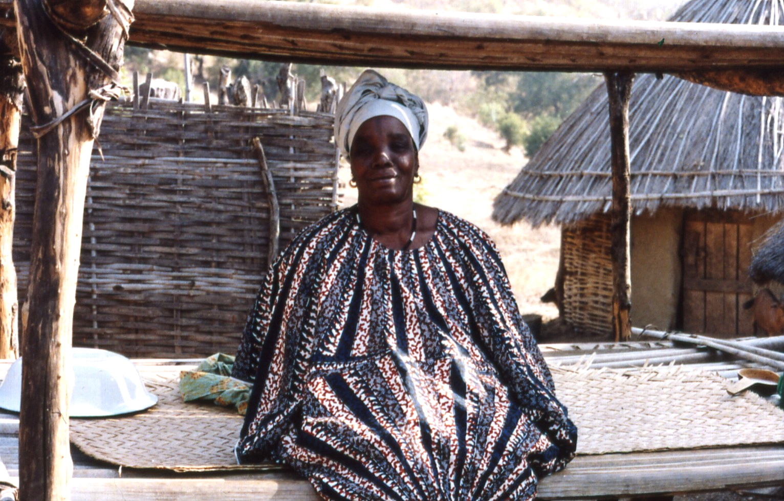 Neneh Houca, Matriarch of the Diallo Compound, Ibel, Senegal (near Kedougou)